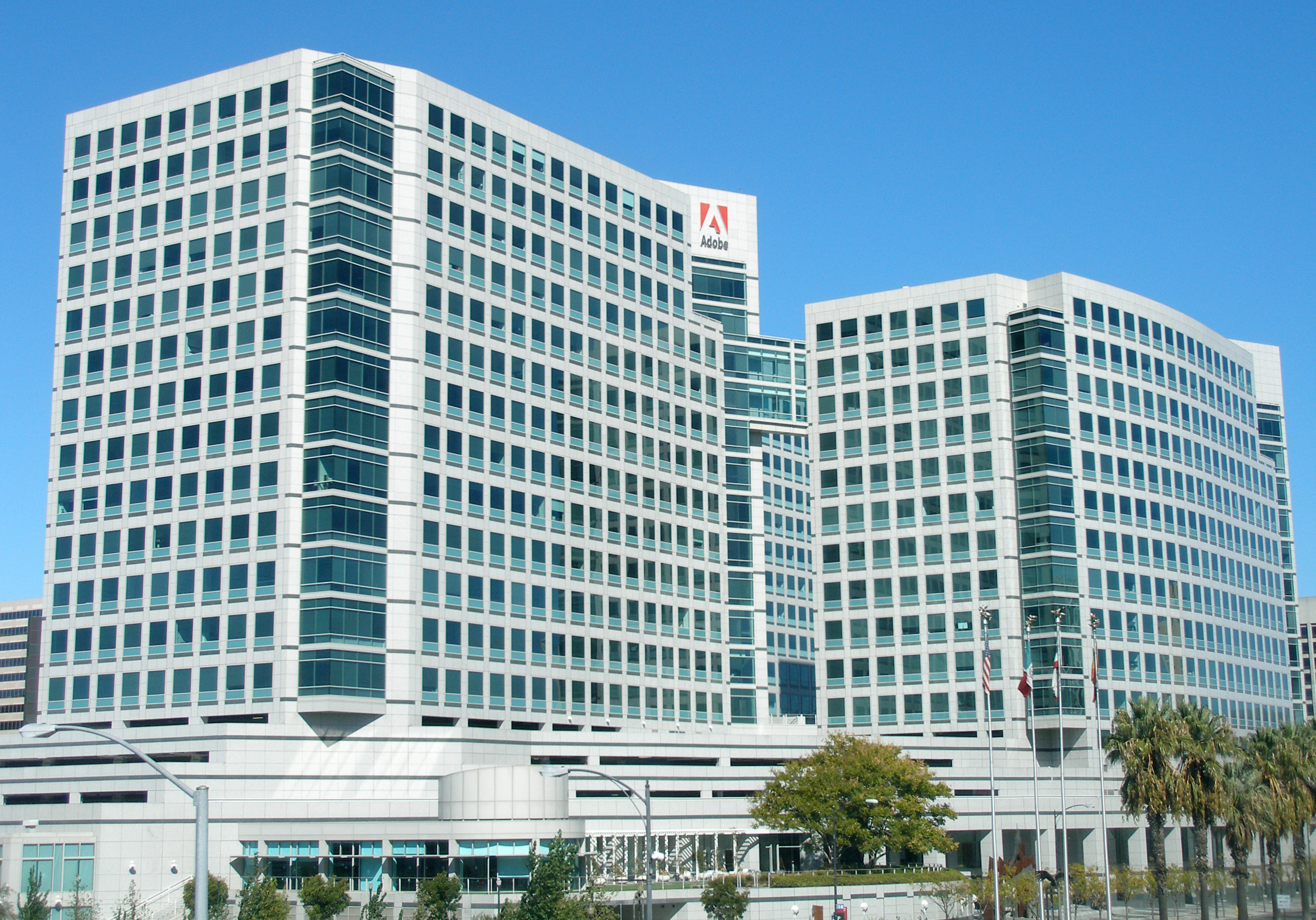 Adobe World Headquarters in San Jose, California. Photographed by user Coolcaesar on October 21, 2007.